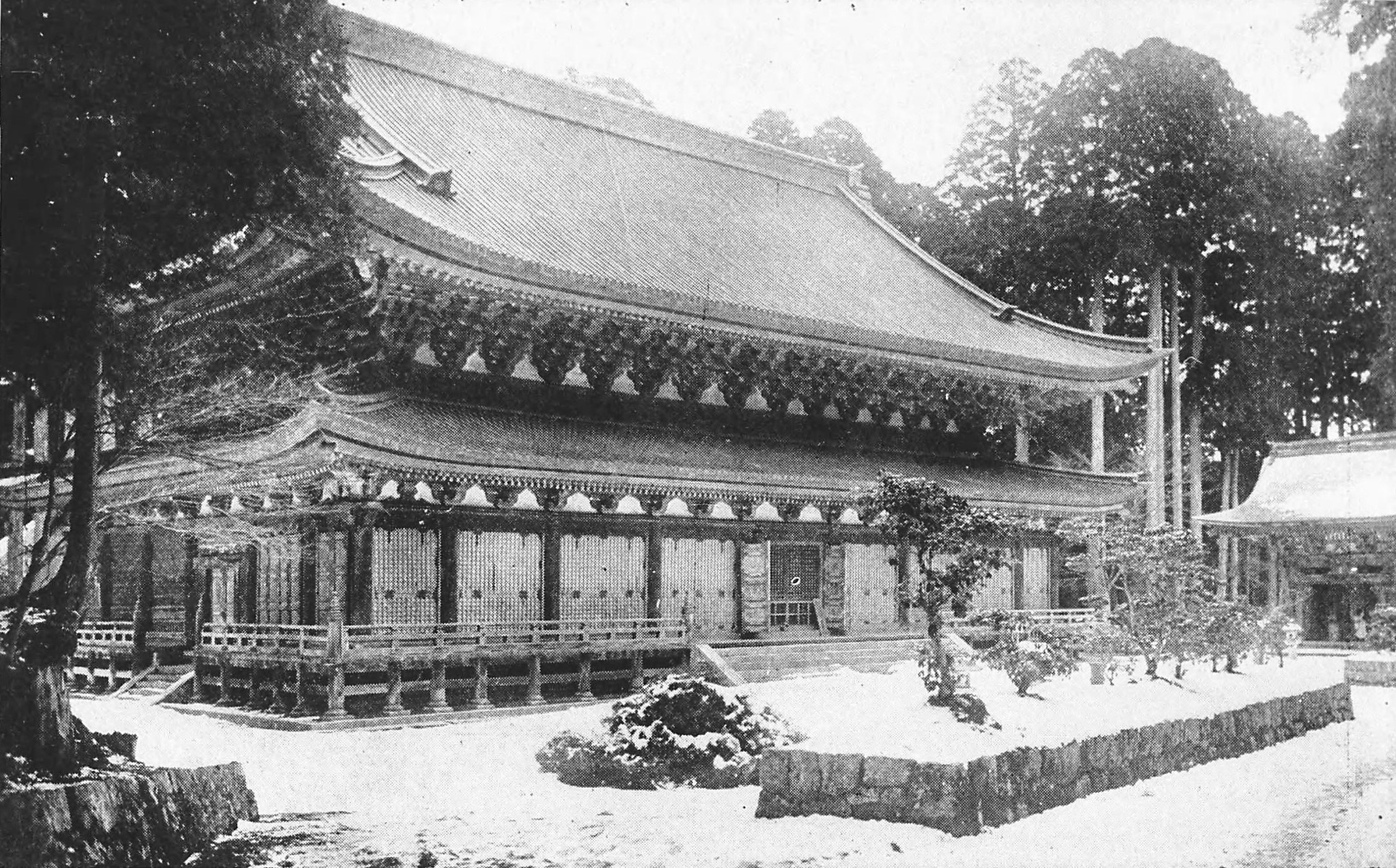 The former Daikodo of Enryakuji, lost in 1956 by arson.